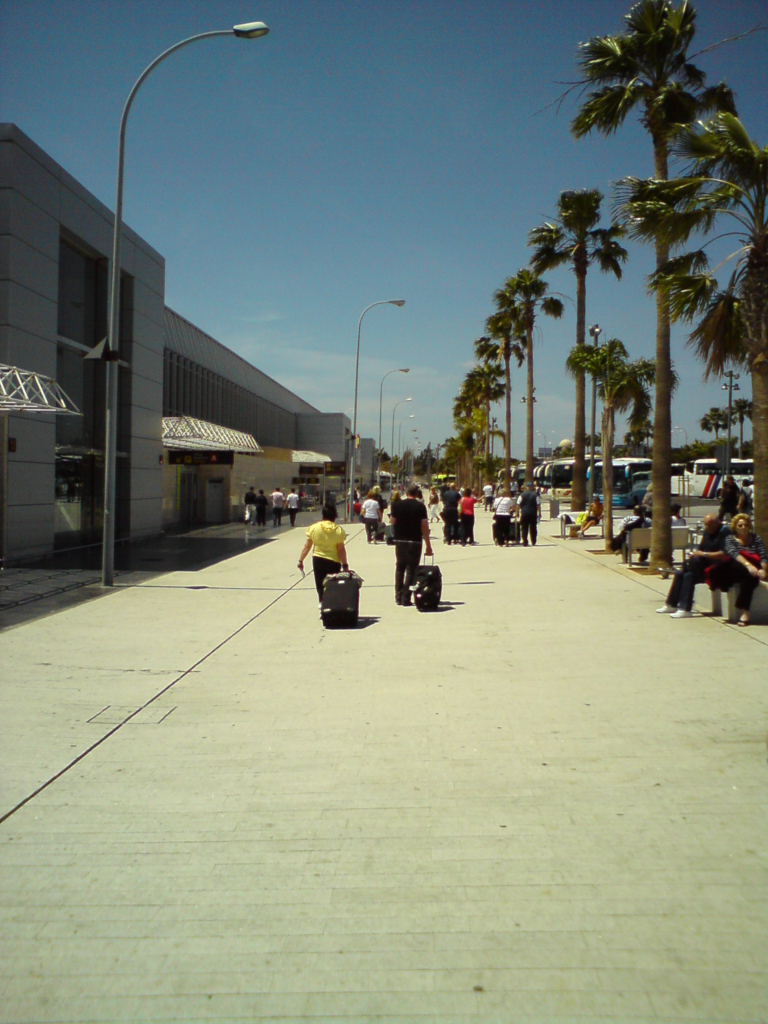 Exterior of Tenerife South Airport